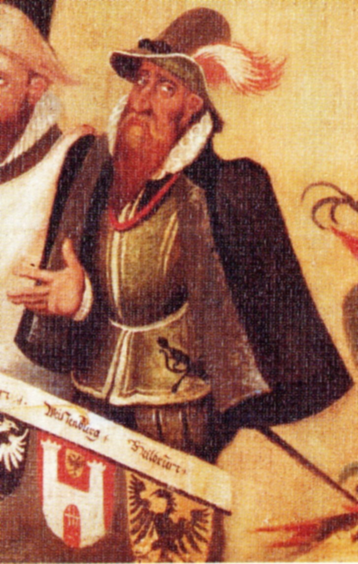 Hans Riesser, mayor of Heilbronn from 1528 to 1552. Image (detail) from 1601 in the Bad Windsheim town hall. Riesser’s facial features are certainly not authentic.